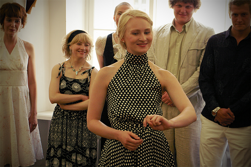 Estonian actor Agnes Aaliste